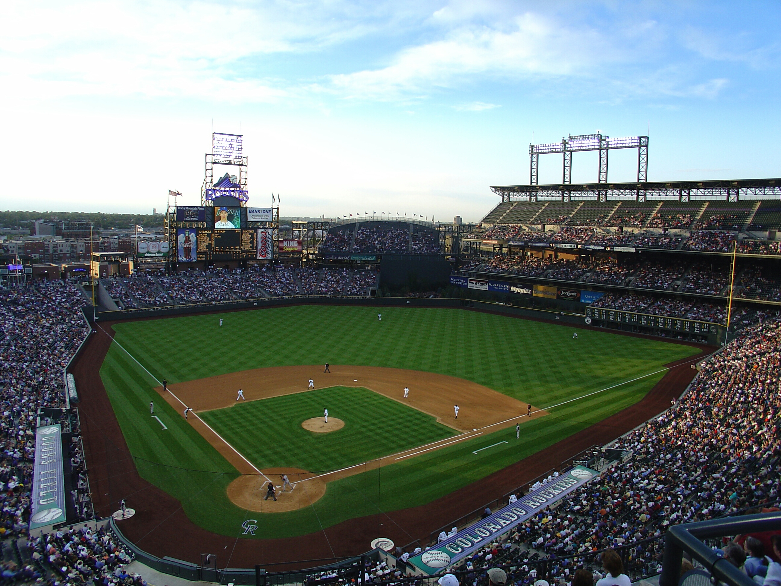 Coors Field - the home of Major League Baseball's Colorado Rockies.